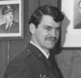 Left to Right: Staff Sgt. Geoff Zahn, Senior Master Sgt. Thomas Reed and Airmen 1st Class Gary Martz stand for a photo during their promotion ceremony. Zahn and Martz both played professional baseball and served in the Washington Air National Guard.